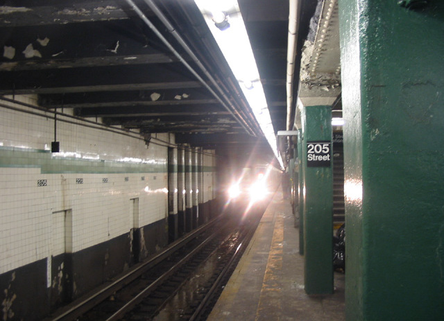 Subway train entering Norwood station